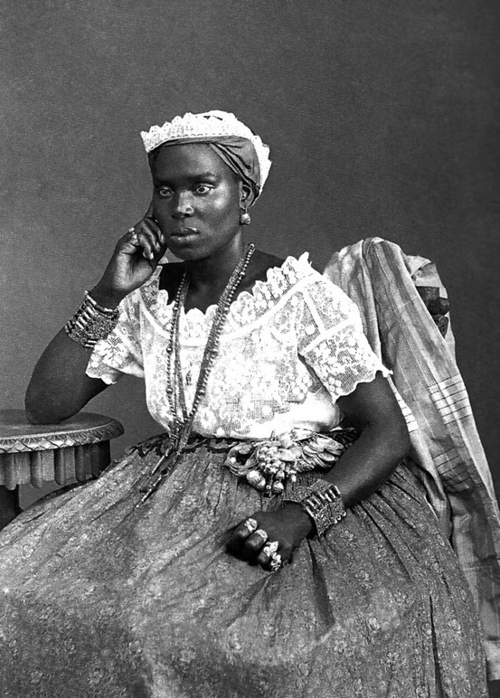 Black woman in Bahia (1885)